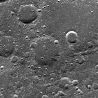 Cannizaro crater at the center of the image, upper part of the image occupied by Poczobutt crater, at the upper left - Omar Khayyam crater. Clementine image from PDS Map-A-Planet.